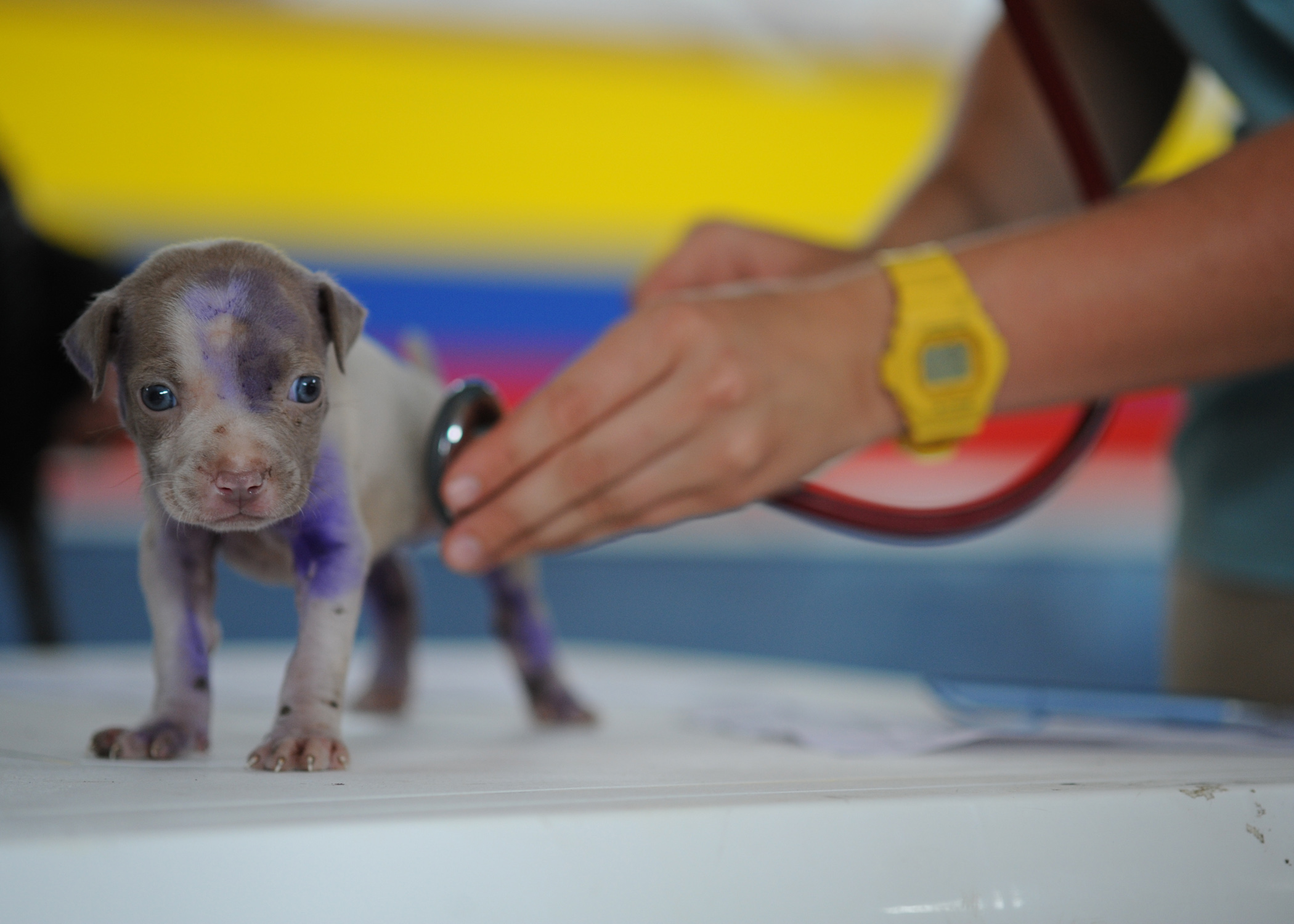 TUMACO, Colombia (June 5, 2011) Dr. Helle Hydeskov, from Denmark, examines a puppy at a temporary veterinary clinic during a Continuing Promise 2011 community service project. Continuing Promise is a five-month humanitarian assistance mission to the Caribbean, Central and South America. (U.S. Navy photo by Mass Communication Specialist 2nd Class Eric C. Tretter/Released)